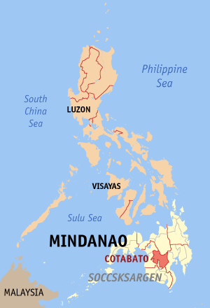 Map of the Philippines showing the location of Cotabato